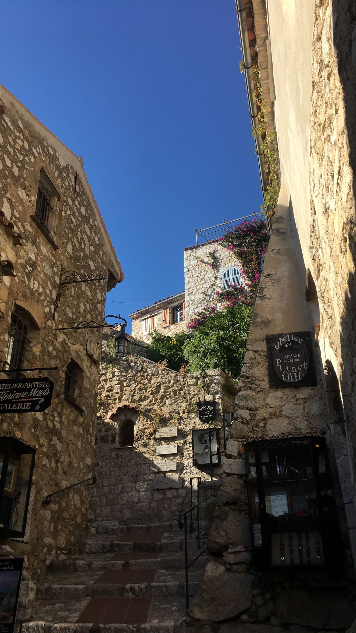 A low angled camera shot taken of abodes located in the medieval village of Eze, which is near the coast line of the French Riveria.